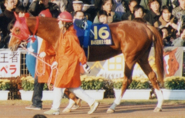 Meisei Opera (horse)